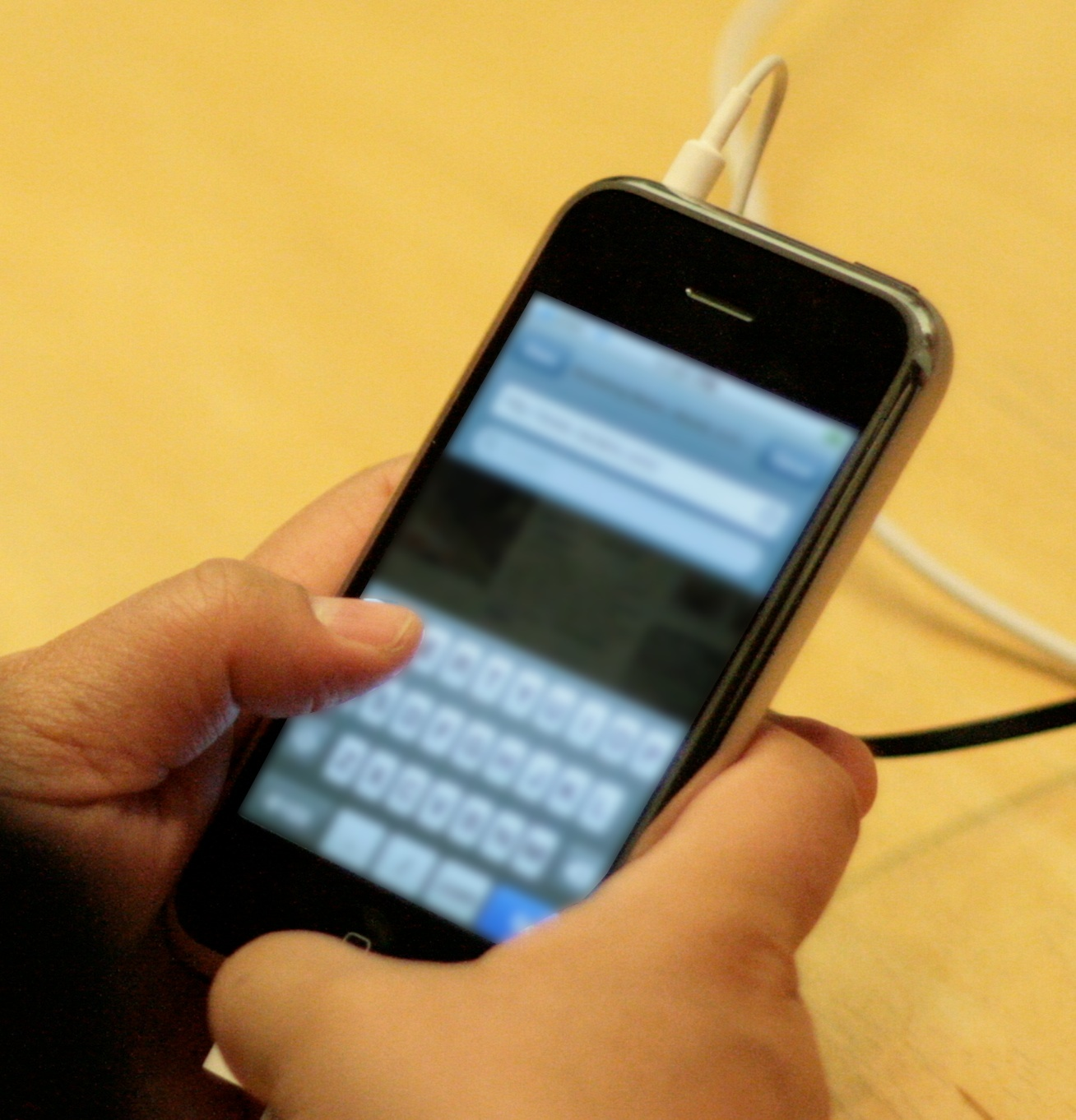 Cropped version of Image:IPhone_Release_-_Seattle_(keyboard).jpg